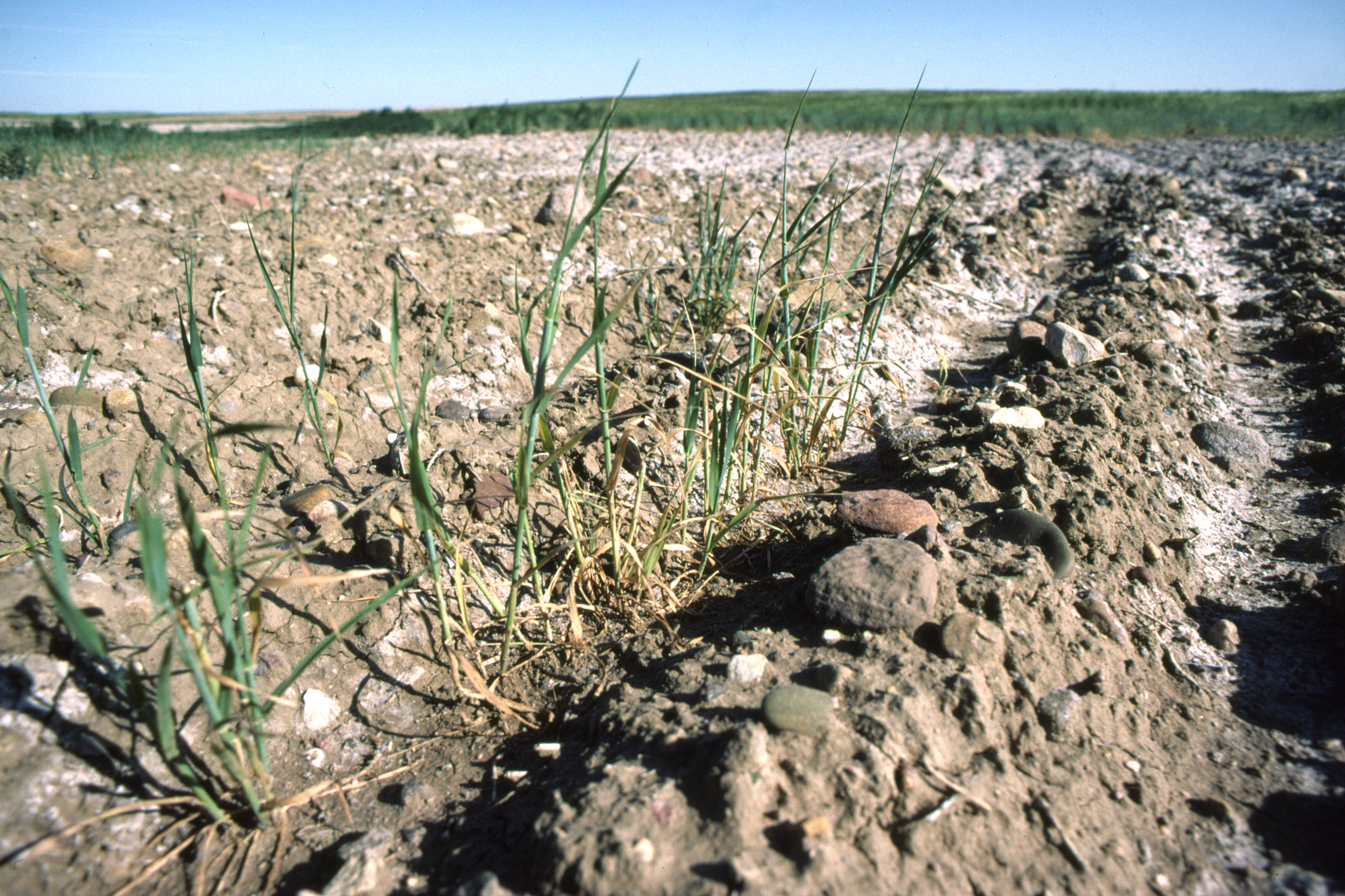 Field with saline seep in Liberty County, July 1983.